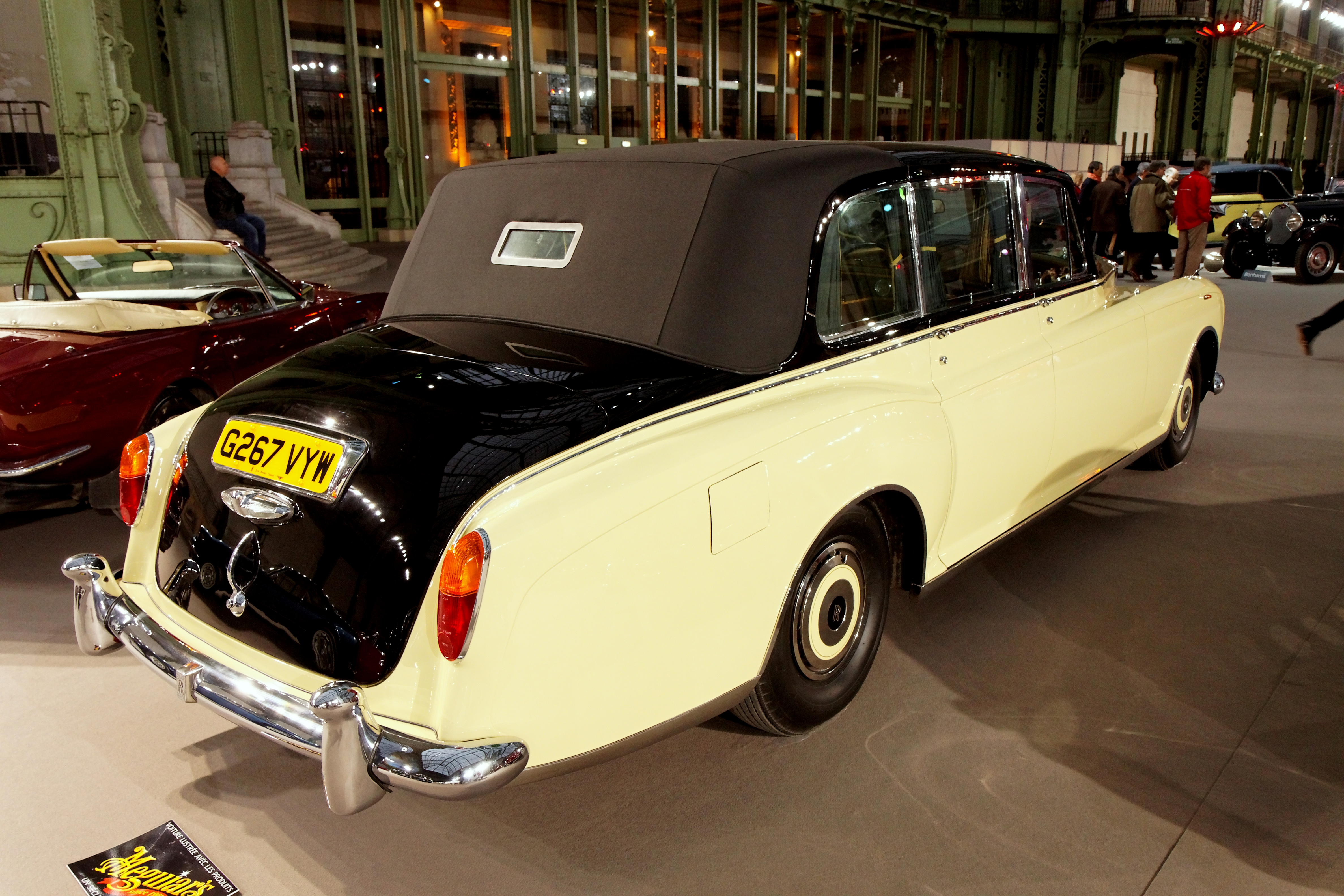 1992 Rolls-Royce Phantom VI Landaulette - one of the very last ones, built for Mohamed Al-Fayed. It sold for 483,000 euros at the auction where the photos were taken.